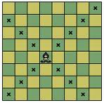 فیل حرکتی